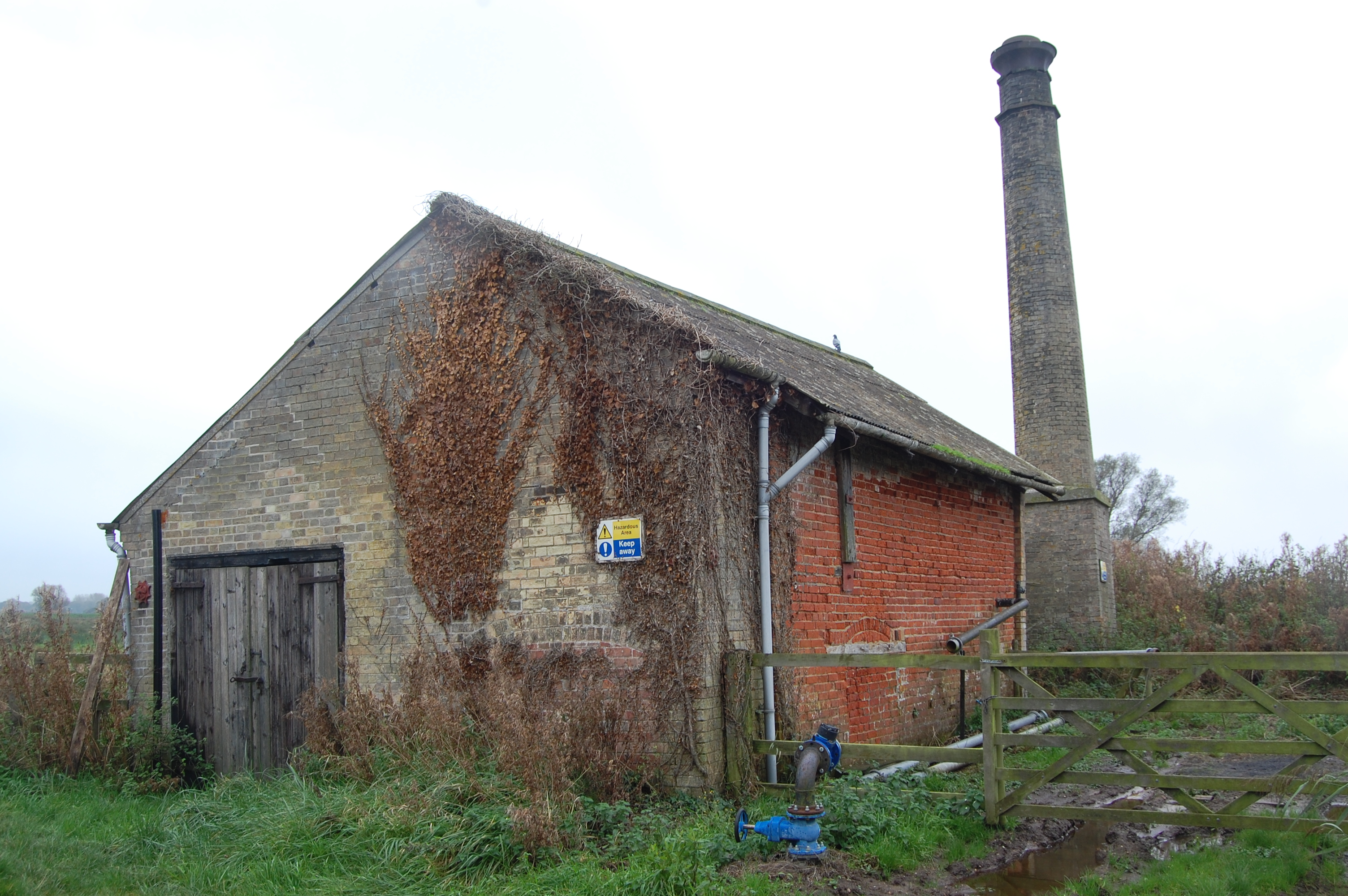 Former steam pumphouse and chimney (late 1800s; both built from brick) at RSPB Strumpshaw Fen, Norfolk, England.